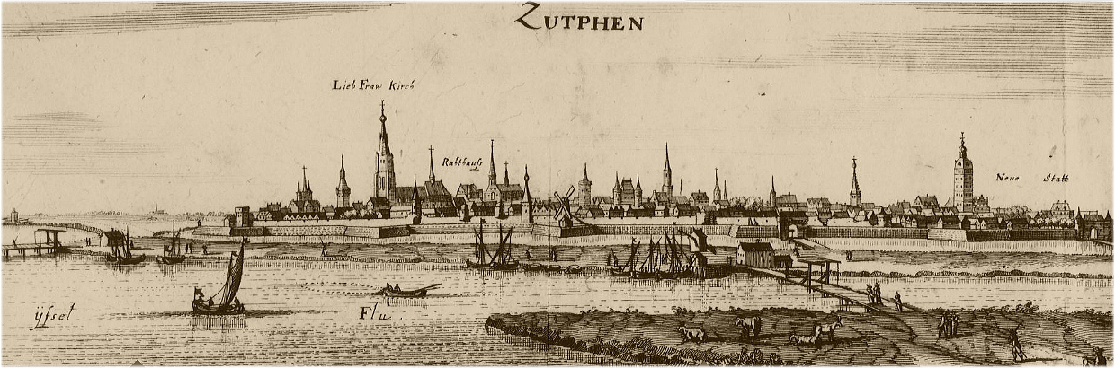 City Zutphen in 1654, copper etching